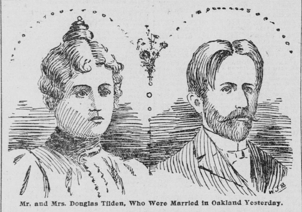 Mr. and Mrs. Douglas Tilden, Who Were Married in Oakland Yesterday [9 June 1896]